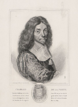 Engraving of Charles de la Porte by Antoni Oleszczyński